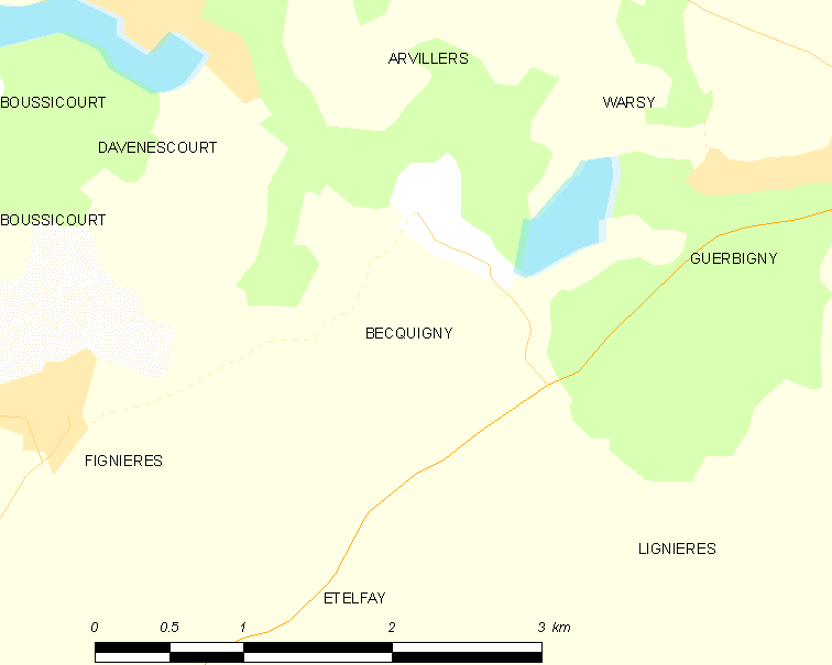 Map of French municipality Becquigny